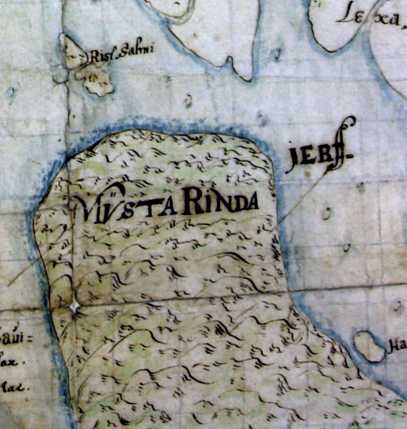 The old name of Koli, Mustarinta, is seen on this detail of a map from 1649.